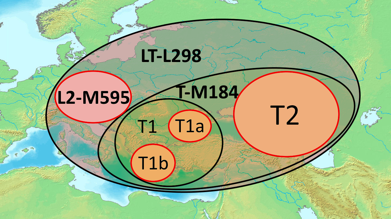 This map show the most probable place of origin for LT-L298 and his descendant haplogroup T-M184 as well as for their basal subclades and L2-M525.